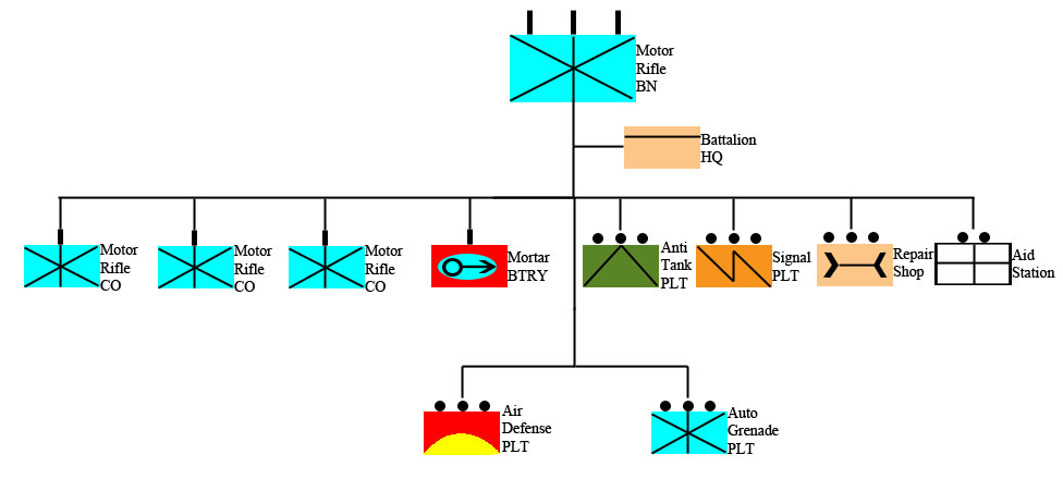 Order of battle graphic for 1980s Soviet Motor Rifle Battalion